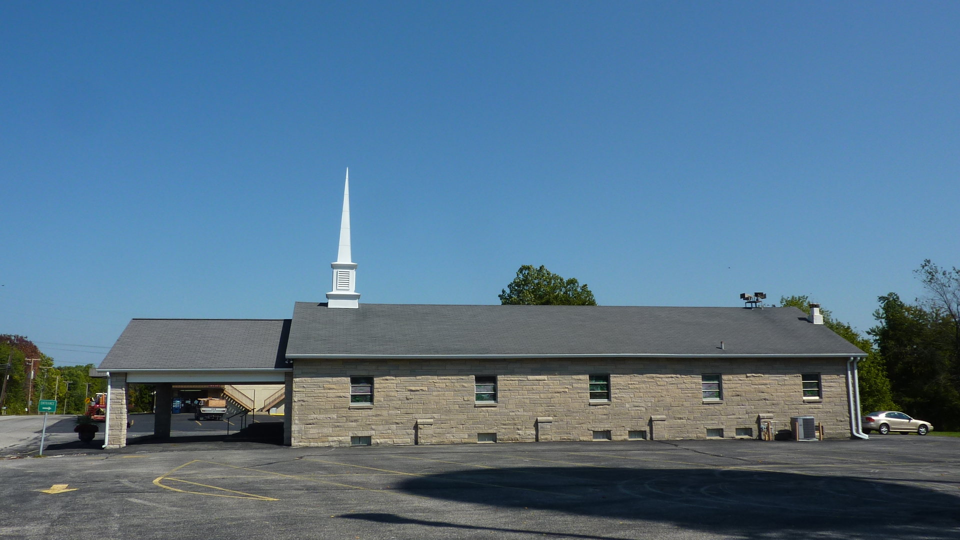 New Unionville Baptist Church, in New Unionville, Monroe County, Indiana